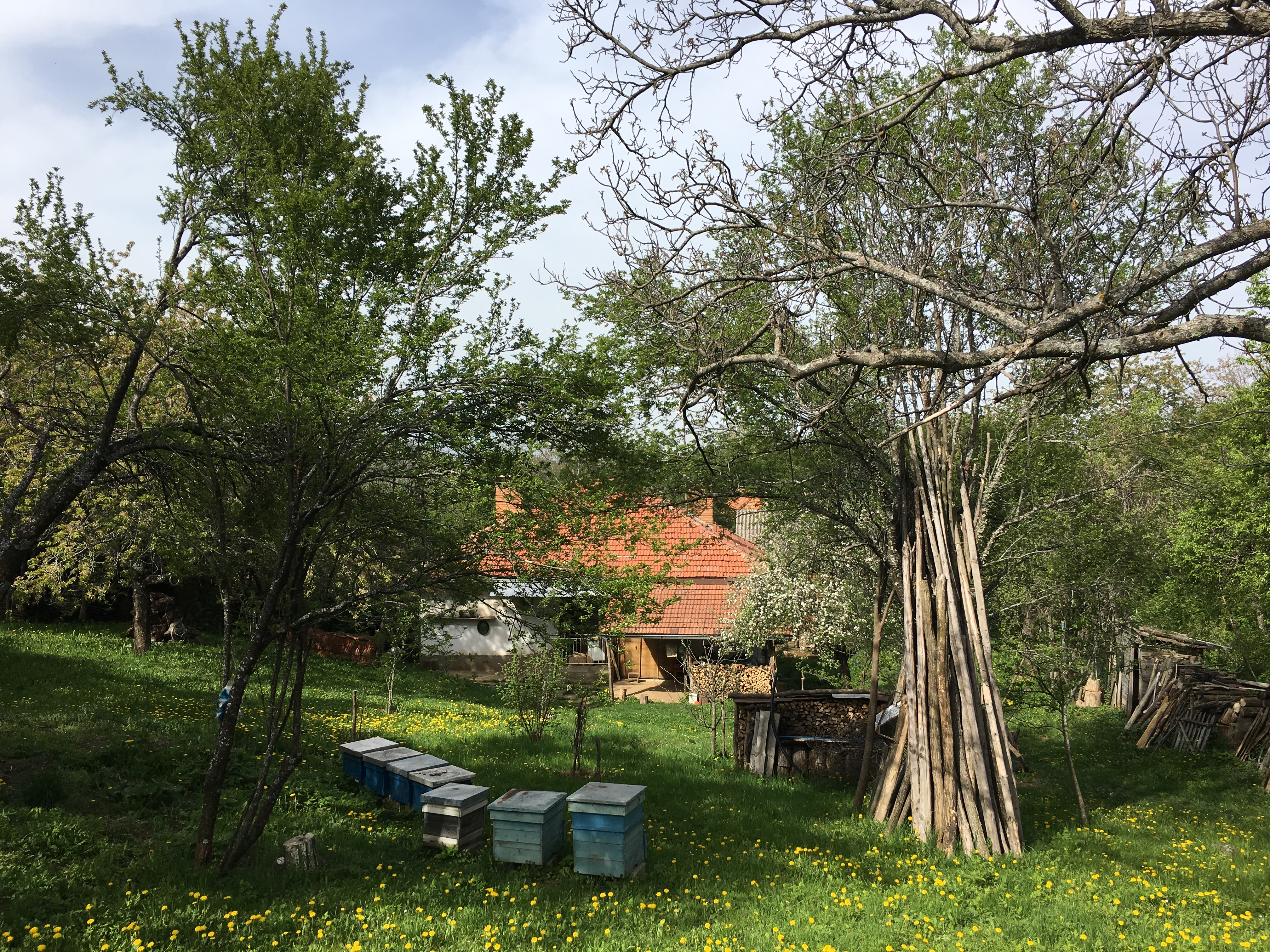 A house in the village of Košari